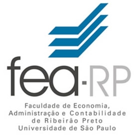 Logo of the Faculty of Economics, Administration and Accounting of Ribeirão Preto.